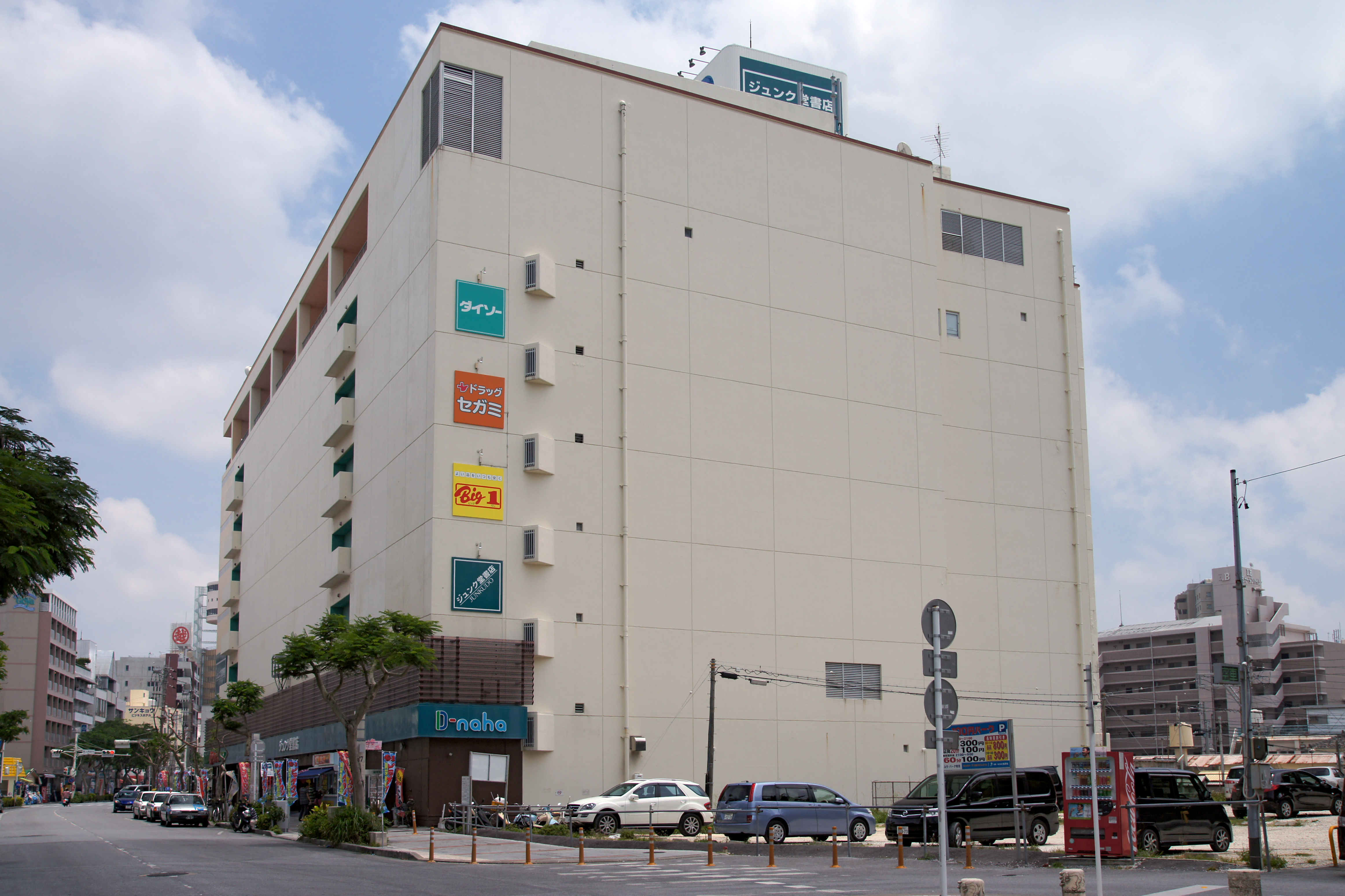 Junkudo in Naha, Okinawa prefecture, Japan